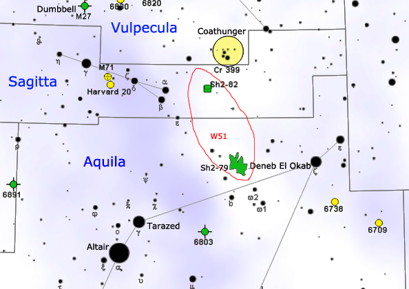 Map of W51 position